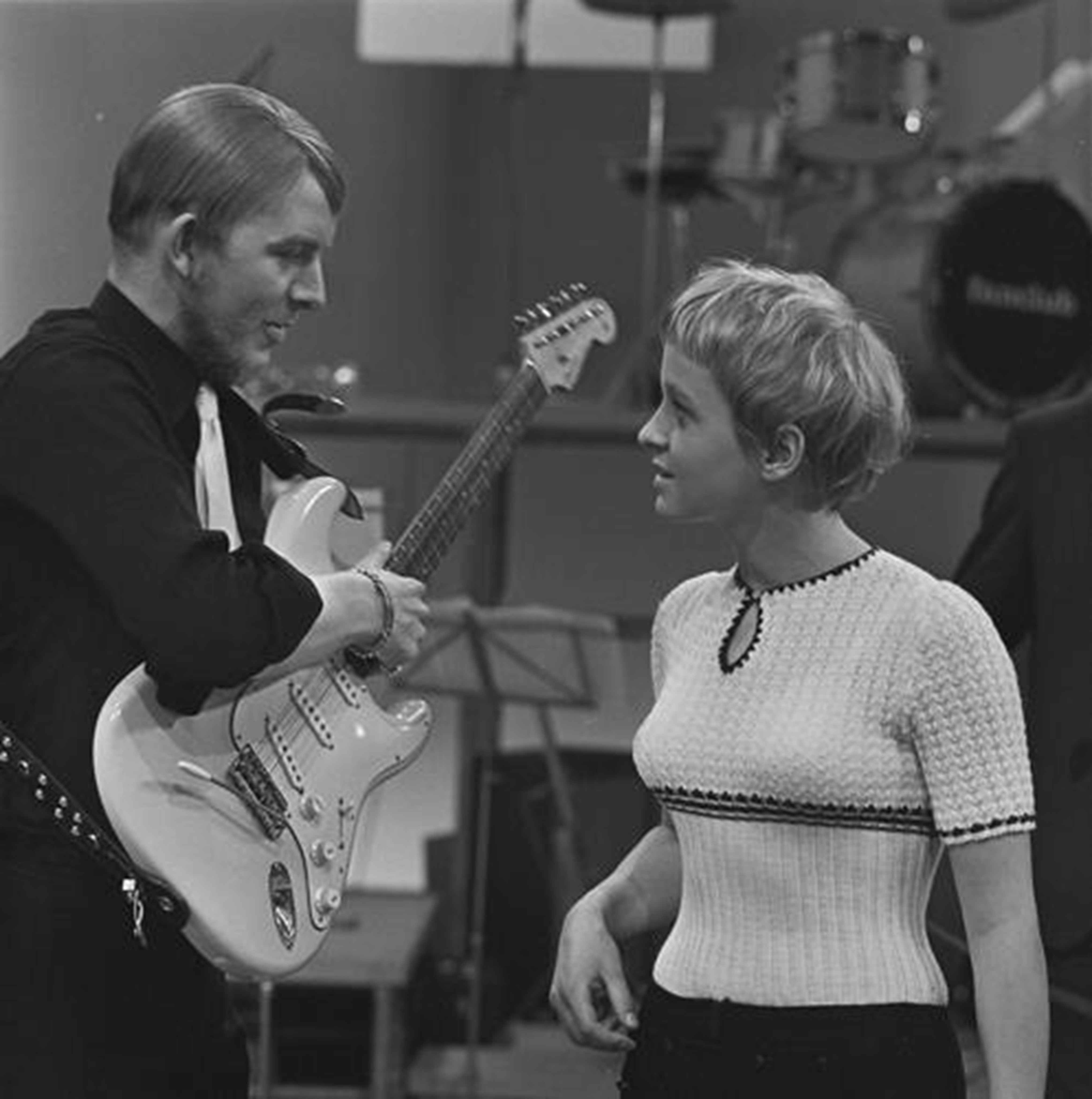 Member of The Animals (Vic Briggs?) interviewed by Judith Bosch after performing in the Dutch TV programme Fanclub. Recorded 7 January 1967, broadcast 13 January 1967